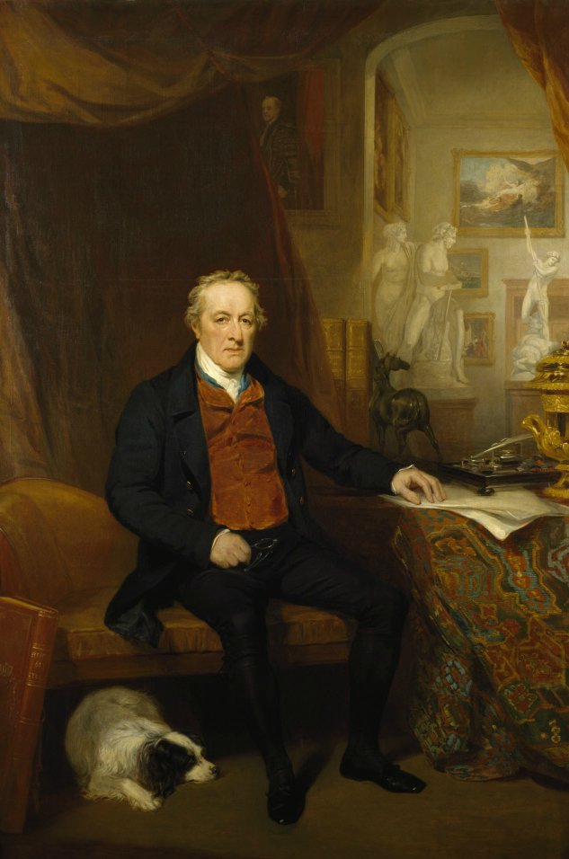 George Wyndham, 3rd Earl of Egremont (1751-1837) in a posthumously-created portrait surrounded by his extensive collection of artwork.